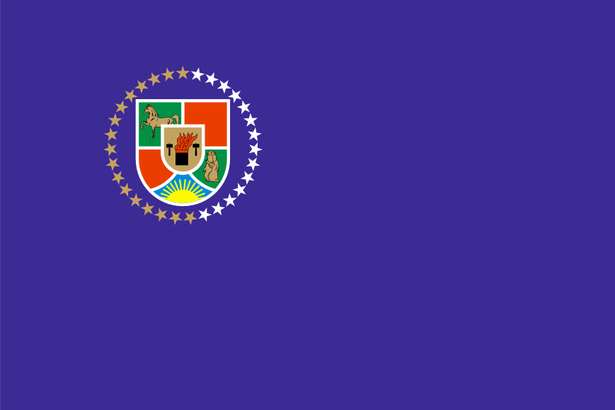 Flag of Luhansk Oblast, Ukraine